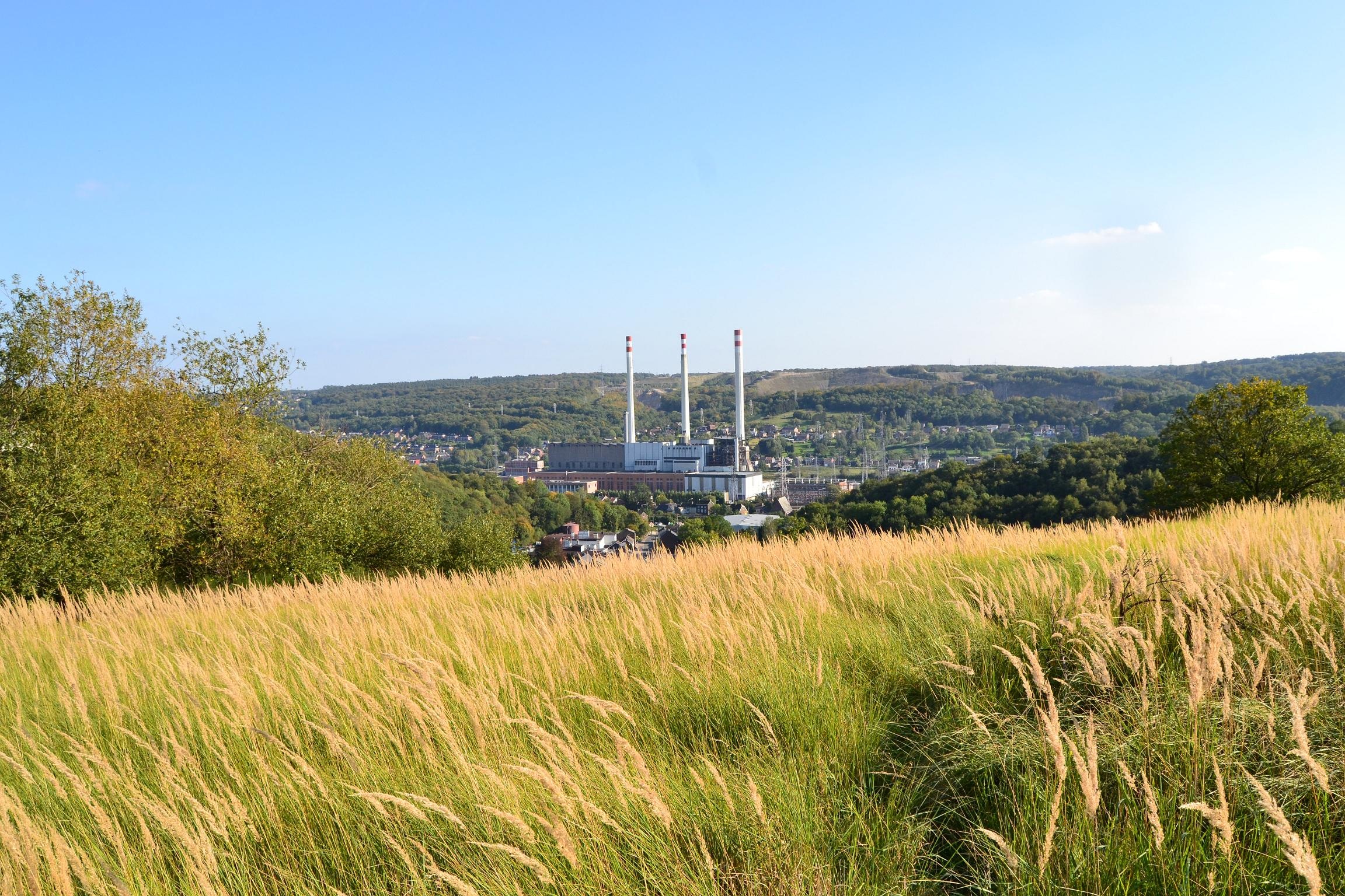 Awirs Power Station, from the Plateau des Fagnes, close to the Schmerling Caves, place of the first discovered neandertalian remains by Philippe-Charles Schmerling in 1830 - Awirs, Flémalle / Engis, Liège, Belgium